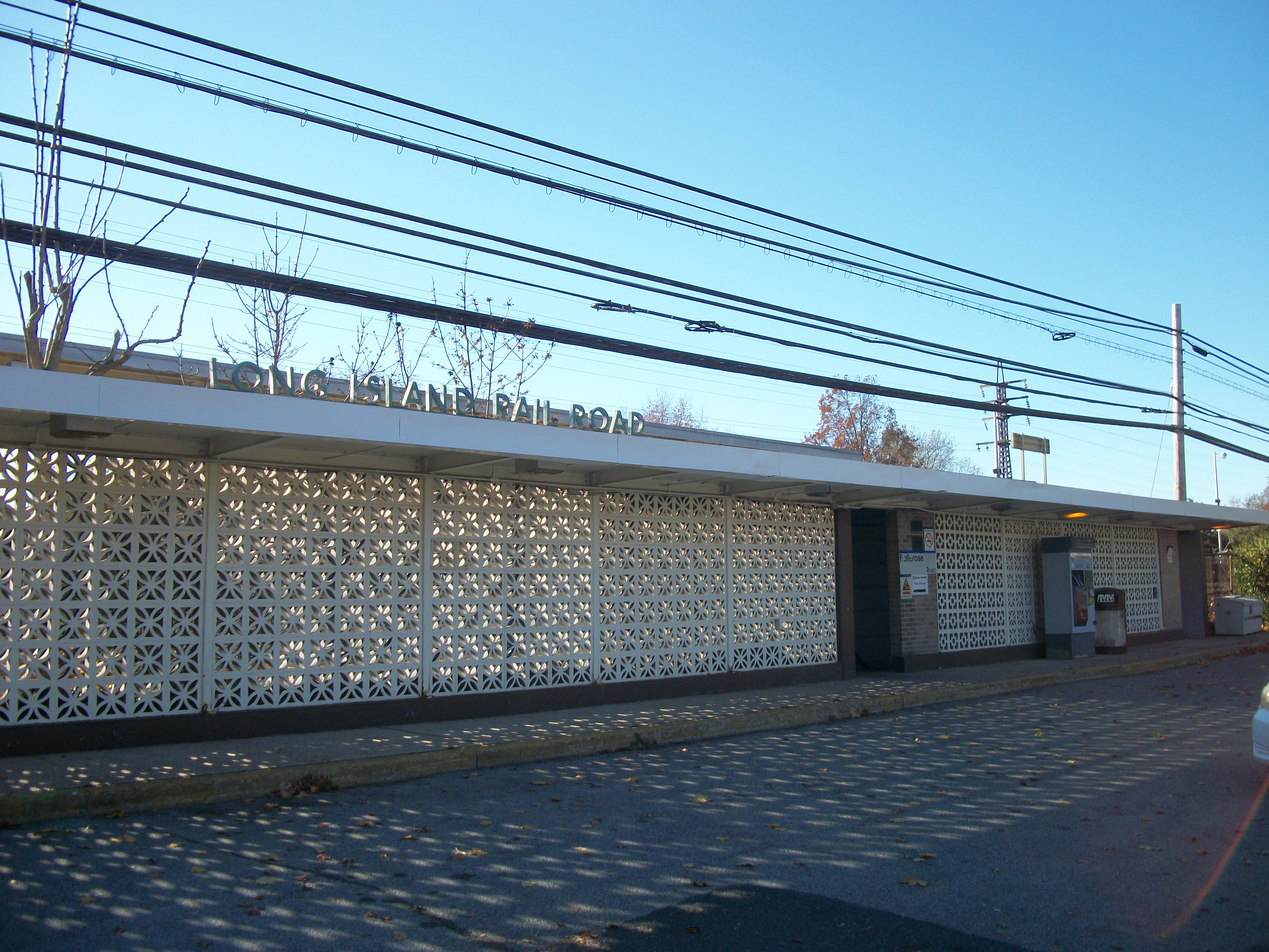 Bellerose LIRR Station from the north side of the tracks. The tunnel to the station on the south side of the tracks can be seen here, but I was more interested in the lettering above the canopy and the concrete patterned "screen."